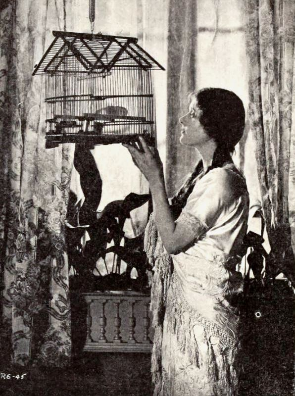 Still from the American film The Stolen Kiss (1920) with Constance Binney, on page 61 of the April 10, 1920 Exhibitors Herald.